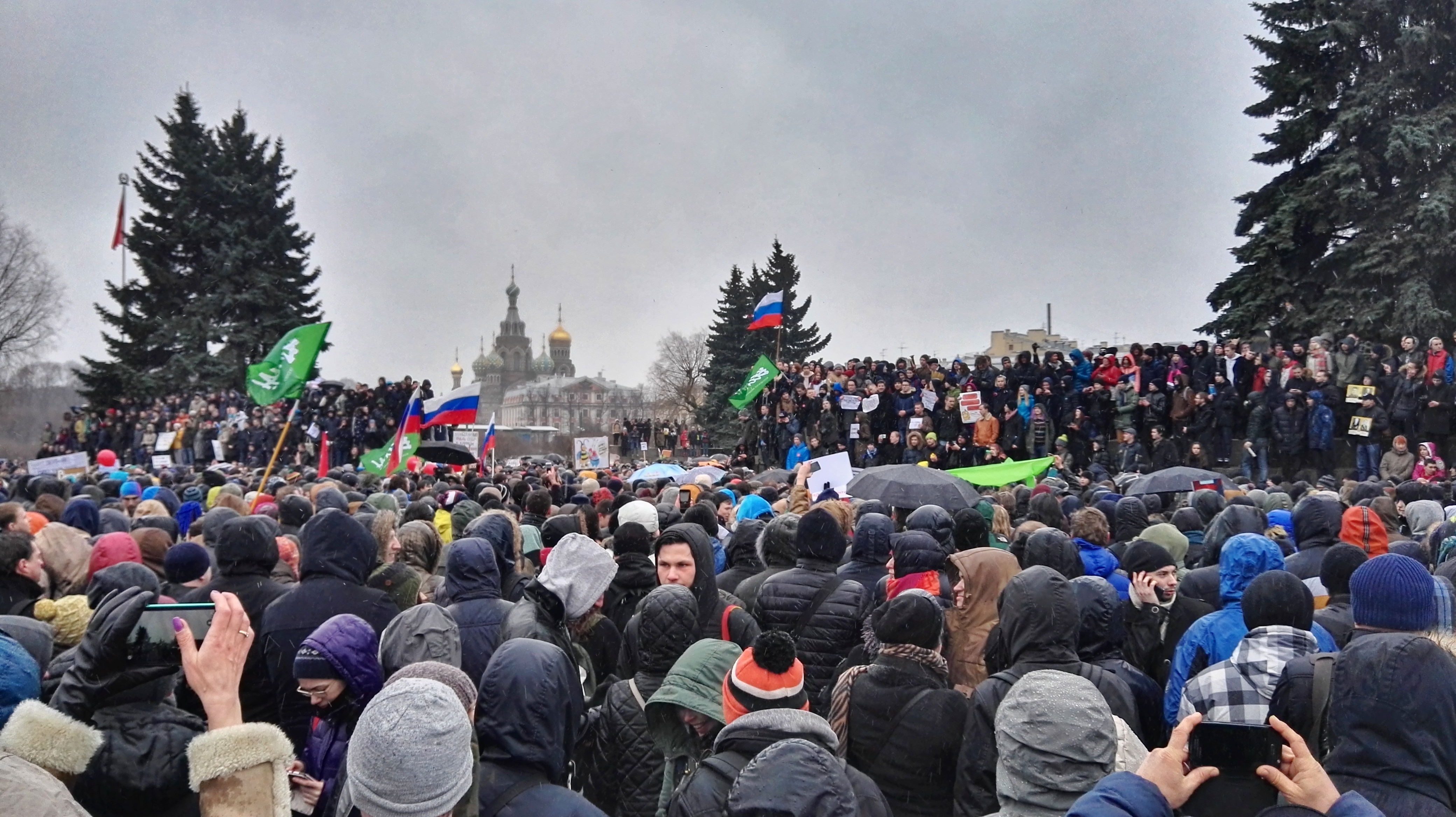 Saint Petersburg. Anti-Corruption Rally (26 March 2017)